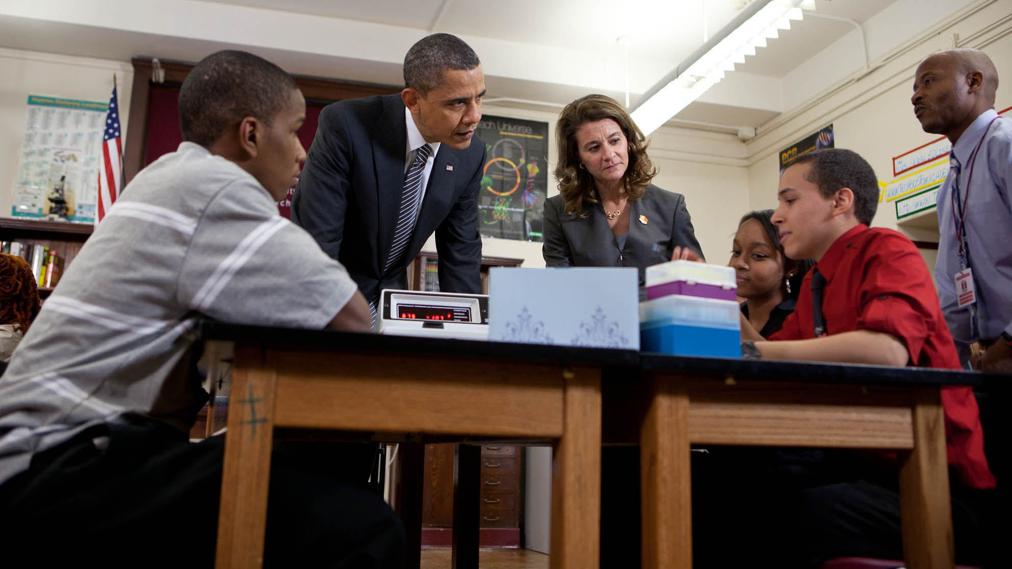 President Barack Obama and Melinda Gates talk with students while visiting a classroom at TechBoston Academy in Dorchester, Mass., March 8, 2011. (Official White House Photo by Lawrence Jackson)